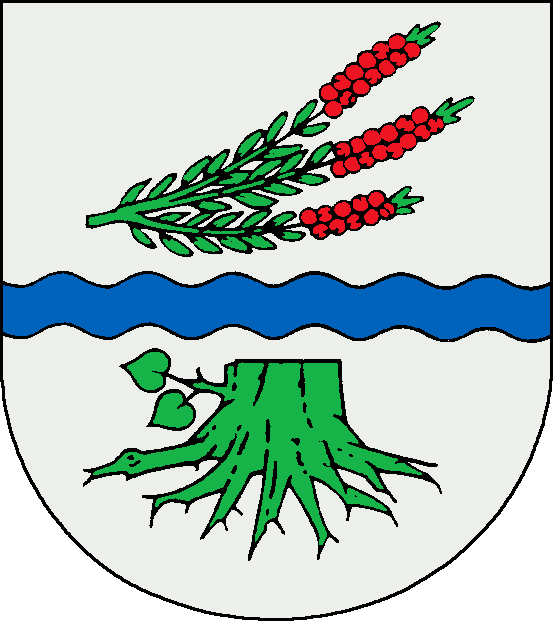 Coat of arms of the municipality Heidekamp in Schleswig-Holstein, Germany.